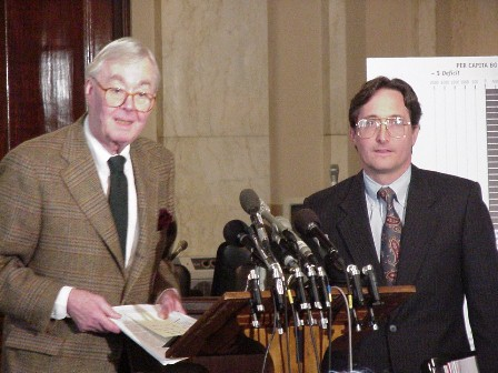 Senator Daniel Patrick Moynihan Presents his annual report on the Federal Budget and the States December 9, 1999 Senator Daniel Patrick Moynihan With Professor Herman B. Leonard of Harvard University